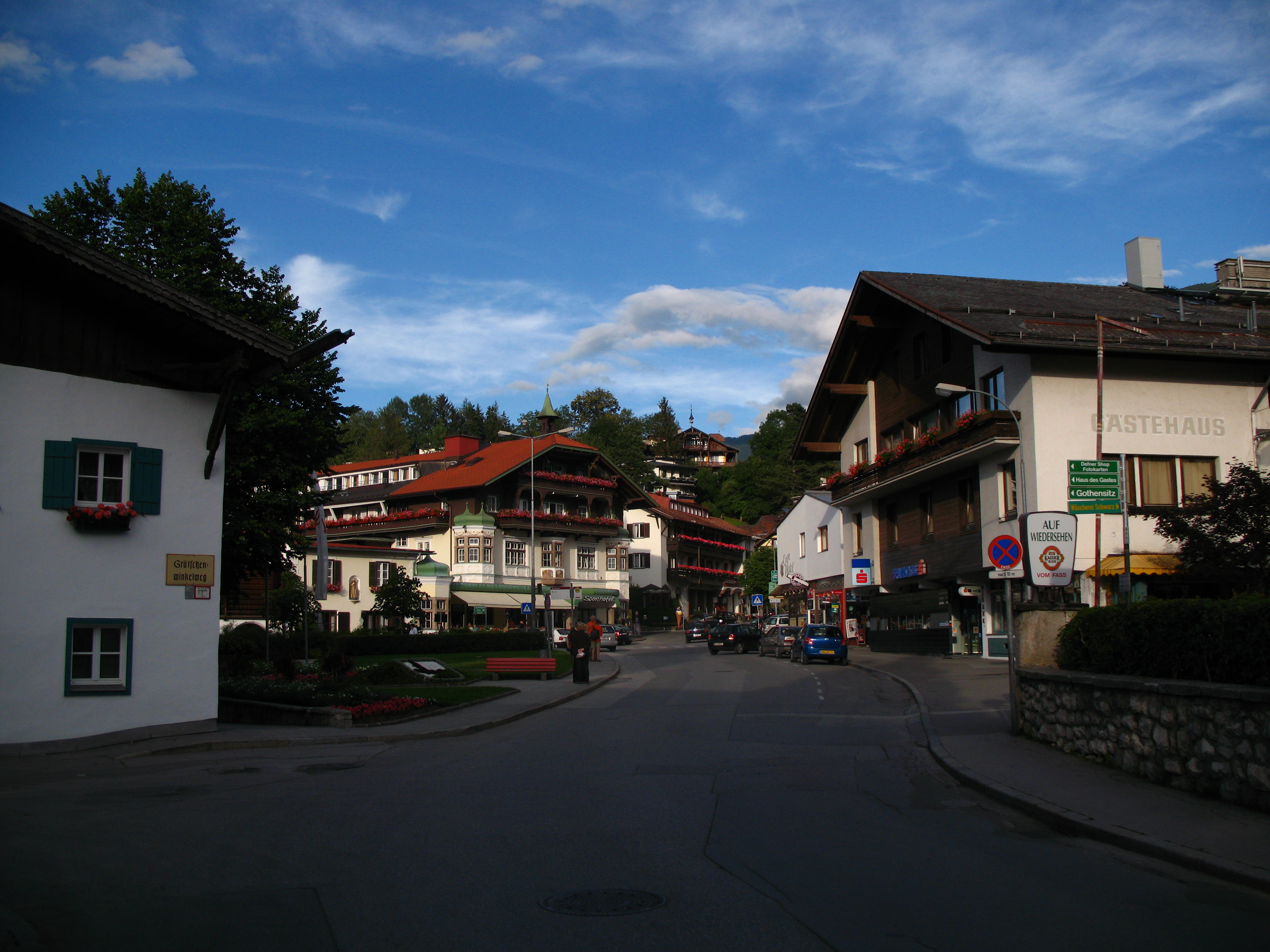 Igls Street, Igls, Austria